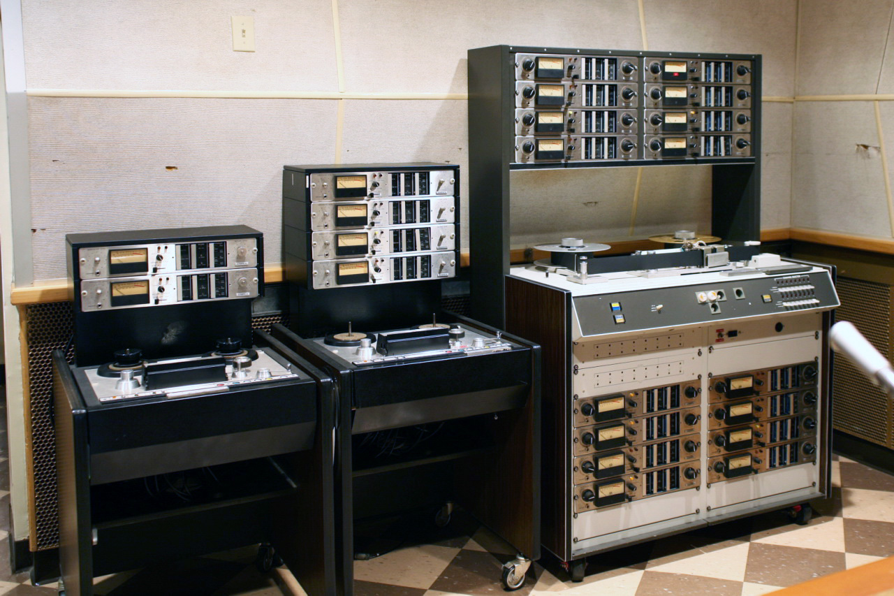 Two of RCA Studio B's Ampex 440's audio tape recorder stereo 1/4" version from the 70's, and the Ampex MM1000 16 track recorder. Ampex AG-440-2 1/4 inch 2 track Ampex AG-440-4 1/4 inch 4 track Ampex MM1000 2 inch 16 track